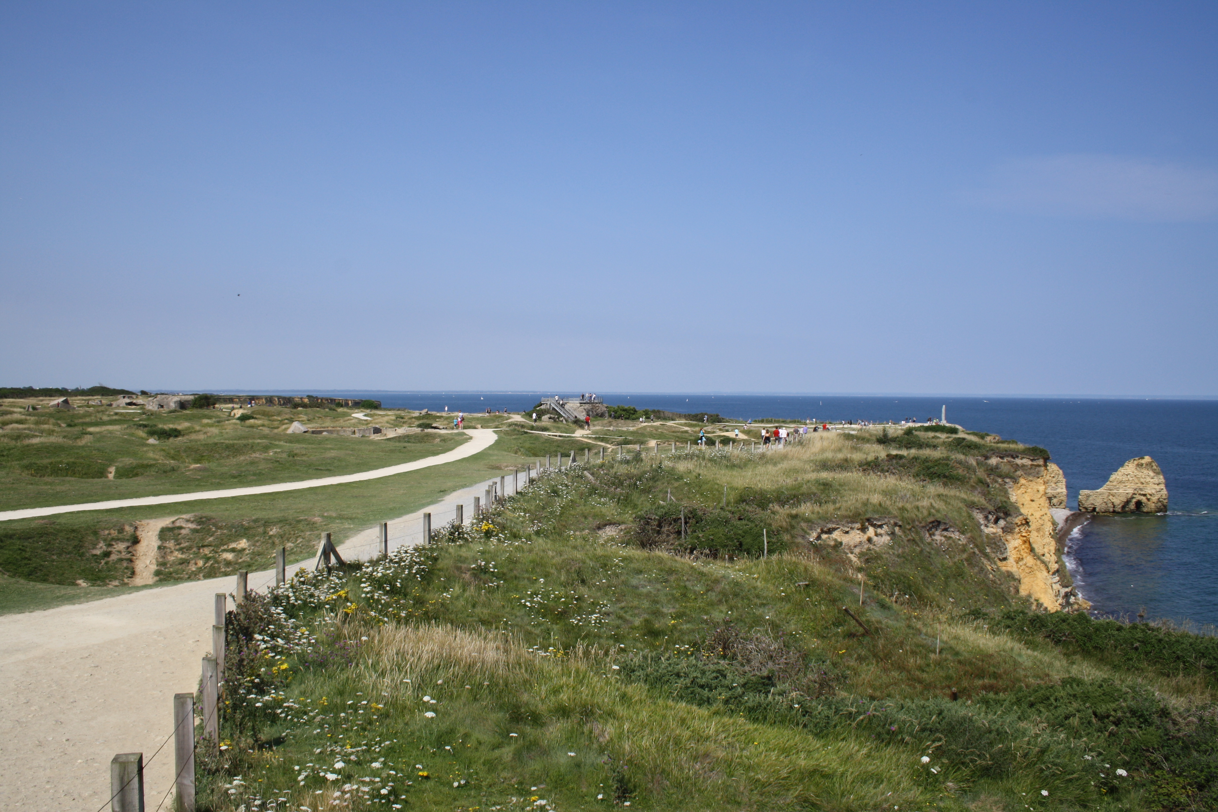 Pointe du Hoc